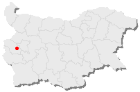 Map of Bulgaria, the red point is the position of Pernik.